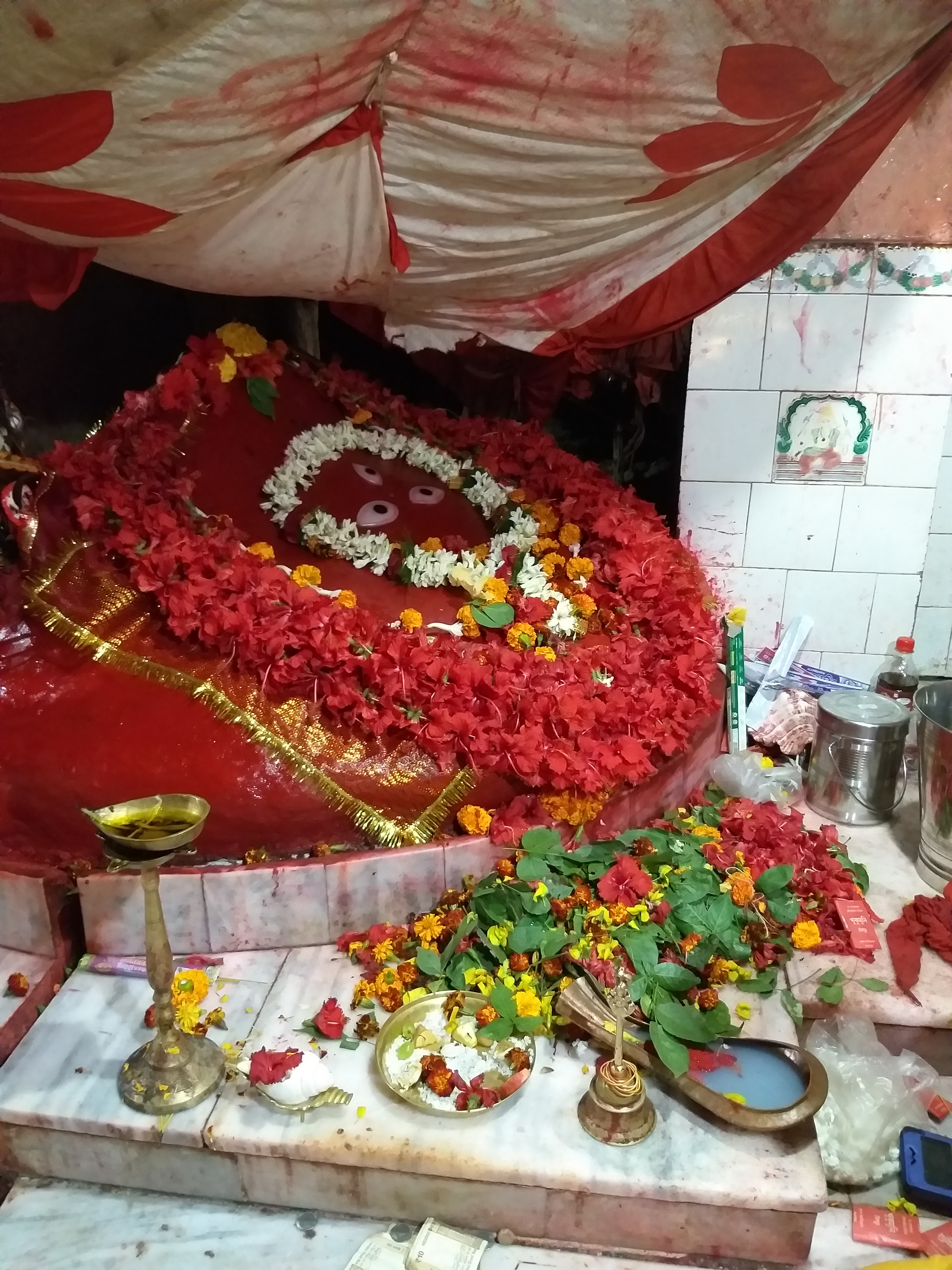 This is the idol of Goddess Nandikeshwari. Goddess Nandikeshwari's idol is located at Nandikeshwari Temple in Sainthia city.